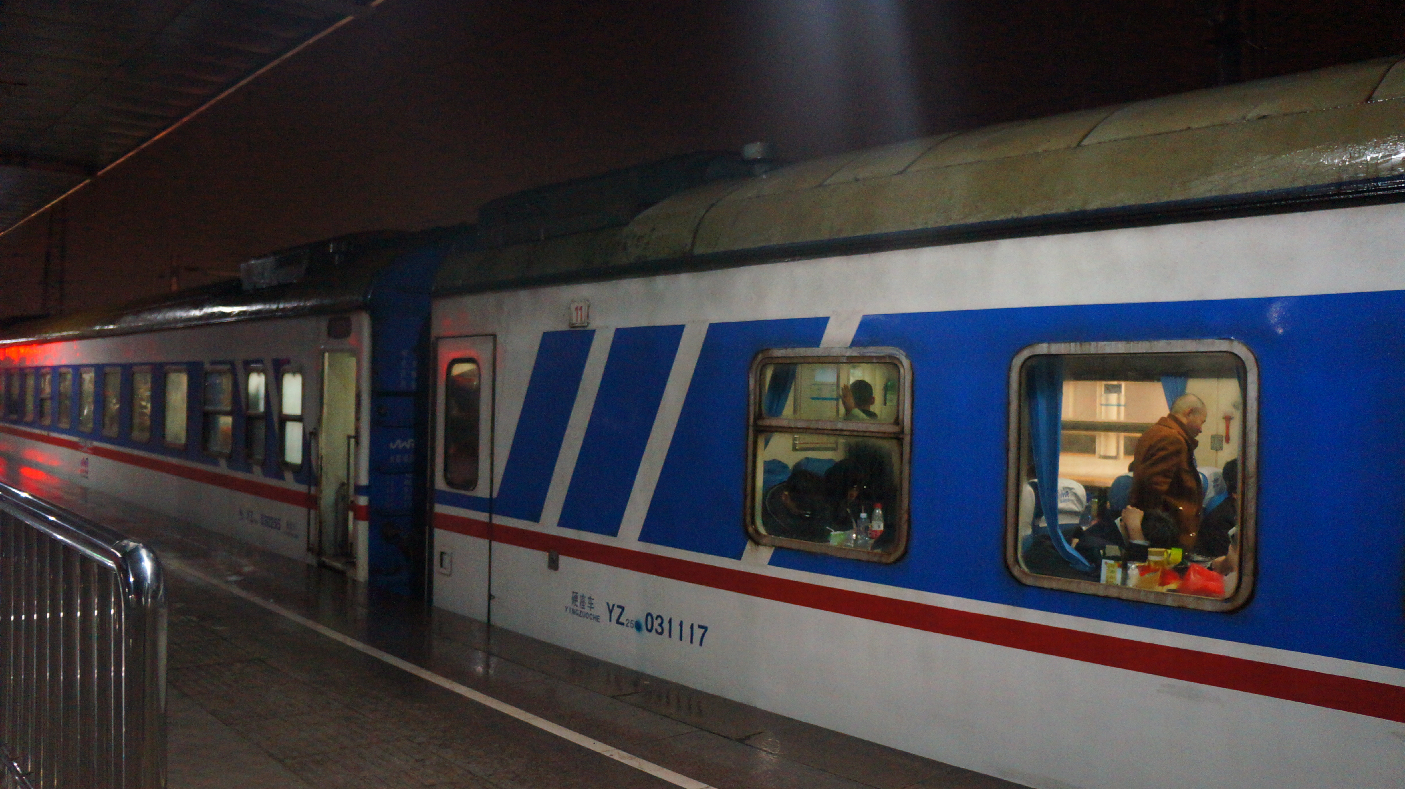 JWR 25G in Zhuji Railway Station